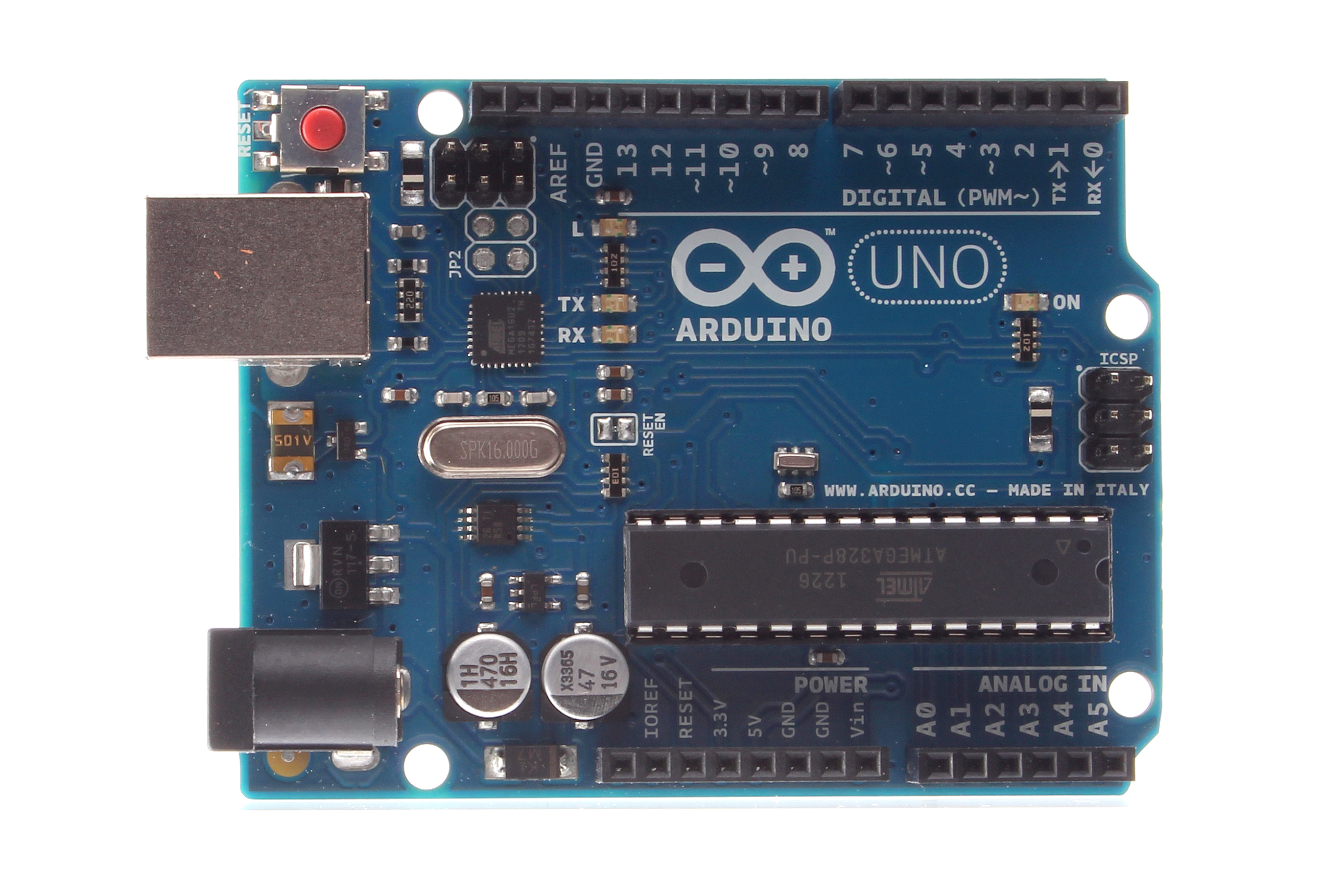 Arduino Uno Rev 3.